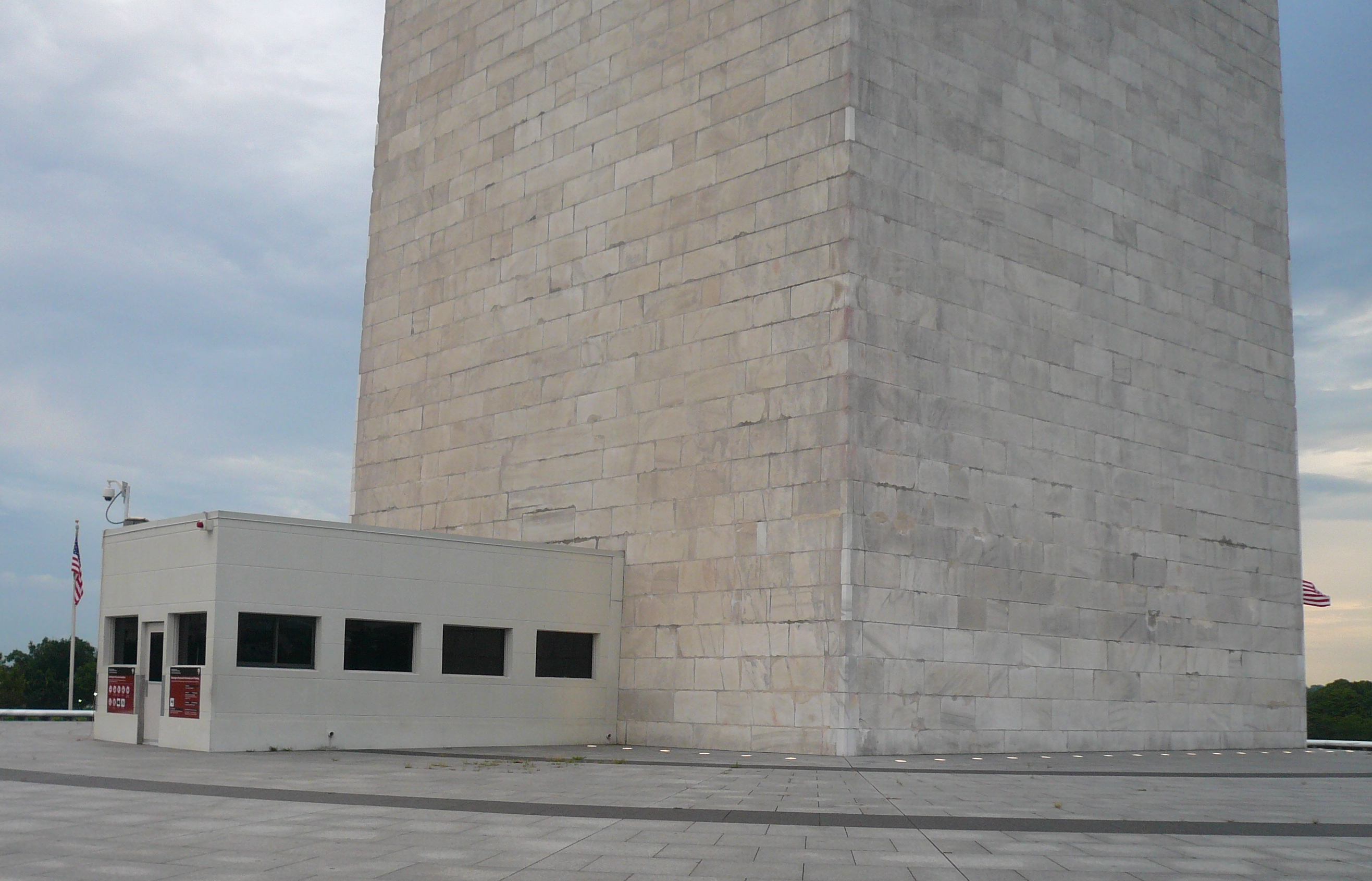 Washington Monument entrance. Washington, D.C., USA.